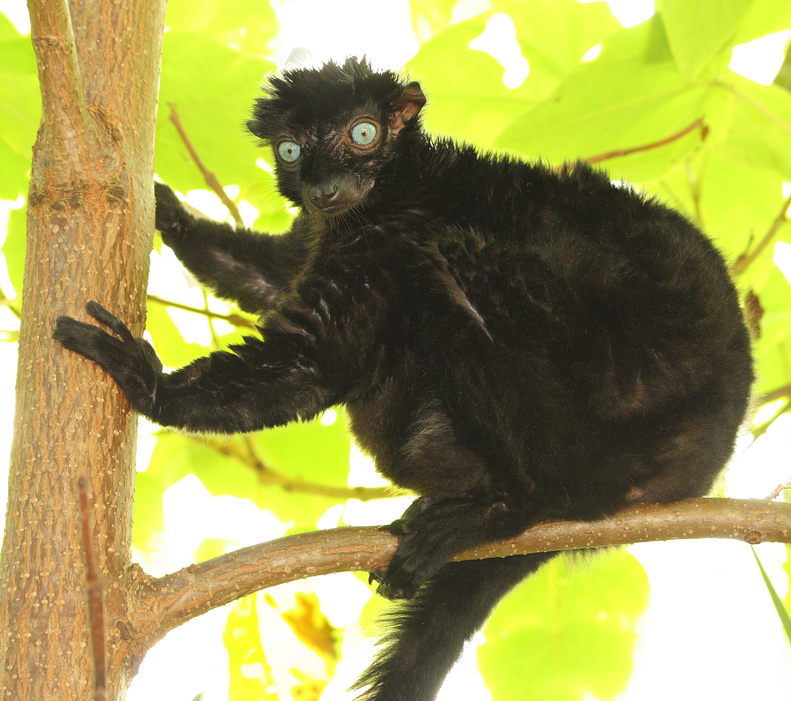 This photo of a blue eyed black lemur (flickr image title) was taken on August 29, 2008 in Corstorphine, Edinburgh, Scotland, Great Britain, with a Canon EOS 400D Digital camera.